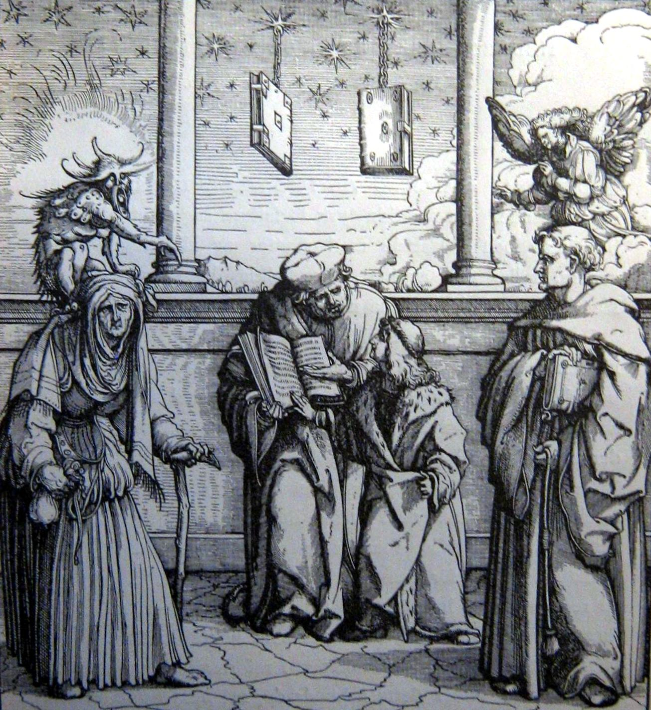 Maximilian I is being educated in the art of magic